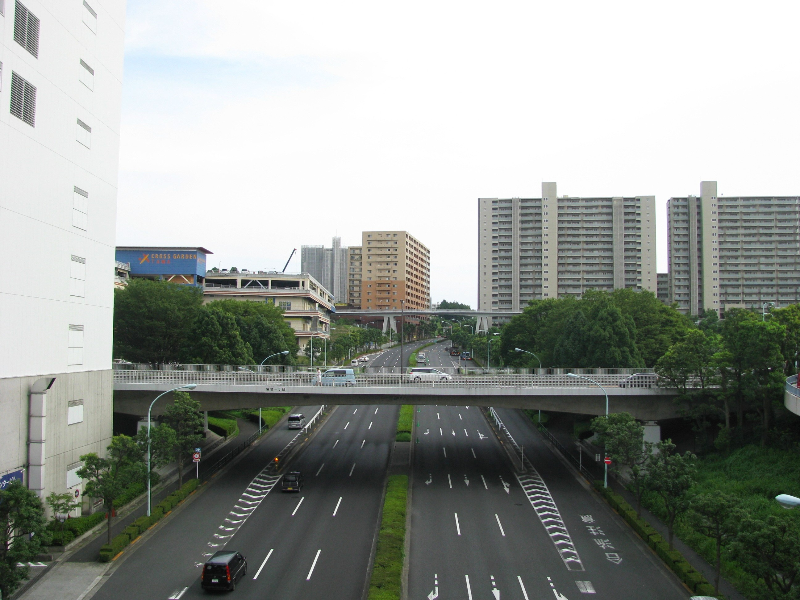 The Tokyo Prefectural Route 156. This location is Ochiai in Tama, Tokyo, Japan.